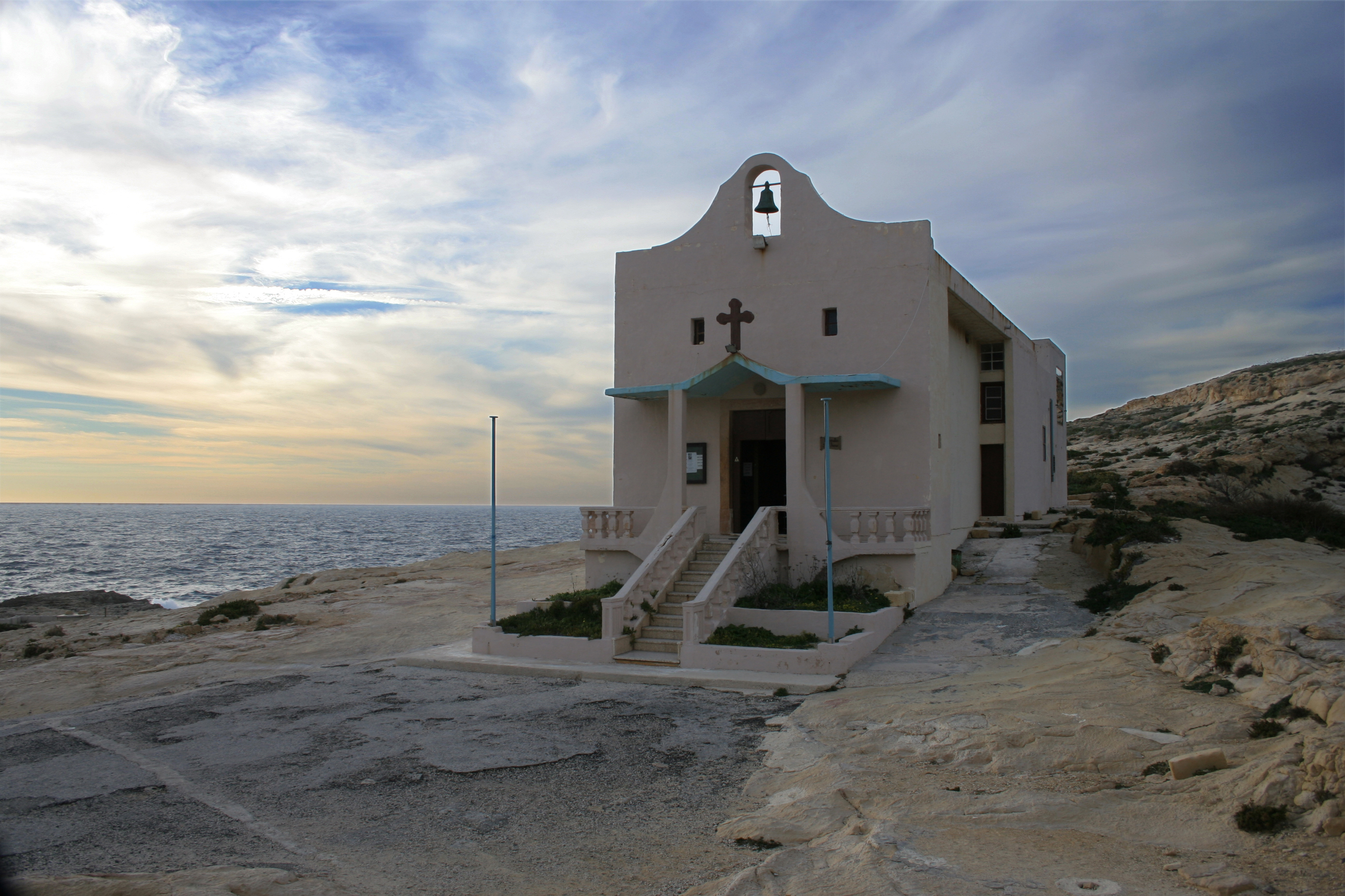 Gozo, chapel on the coast